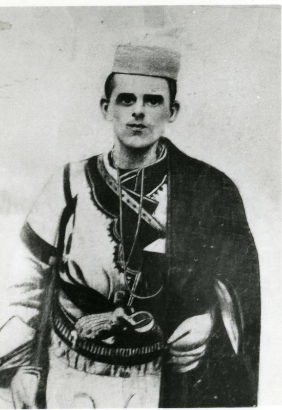 Stavre Gogov.